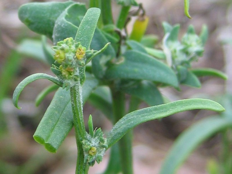 Strand-Melde Atriplex littoralis, Wismarbucht